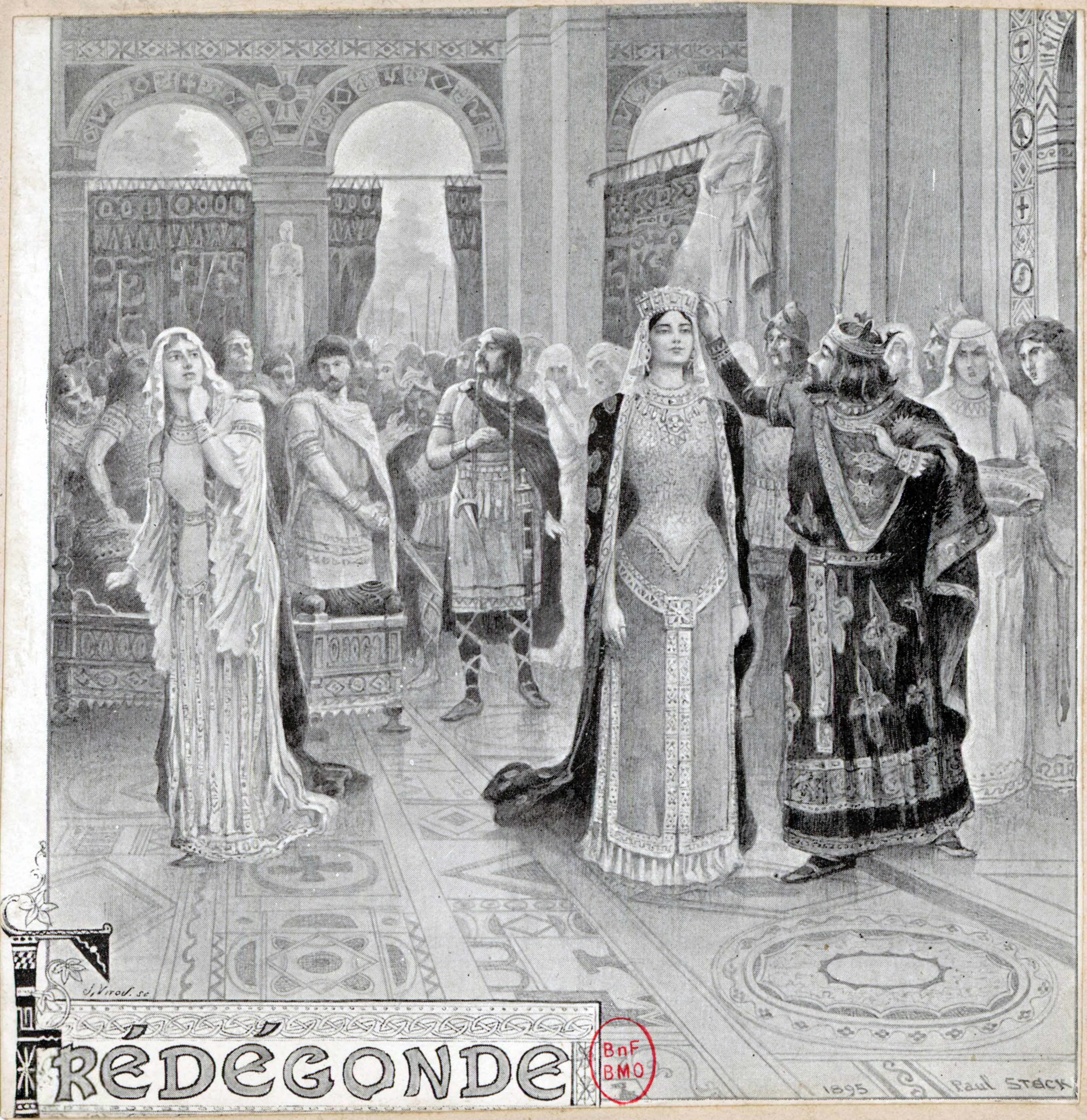 Frontispiece [1] for the piano-vocal score of the opera Frédégonde